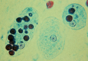 Trophozoites of Entamoeba histolytica with ingested erythrocytes (trichrome stain). The ingested erythrocytes appear as dark inclusions. Erythrophagocytosis is the only characteristic that can be used to differentiate morphologically E. histolytica from the nonpathogenic E. dispar. In these specimens, the parasite nuclei have the typical small, centrally located karyosome, and thin, uniform peripheral chromatin.